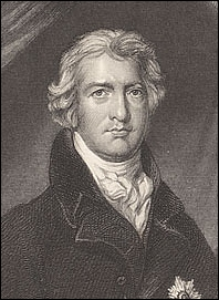 Robert Banks Jenkinson, 2. Earl of Liverpool (1770–1828), British statesman und prime minister of the United Kingdom